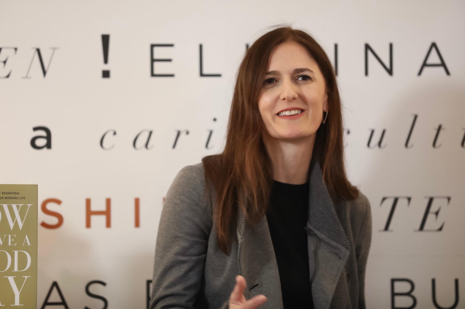 Caroline Webb speaking at The Female Quotient at the World Economic Forum Annual Meeting in Davos, January 2017